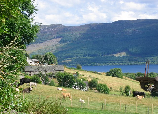 Drumbuie. Cattle grazing above Drumnadrochit. Looking east across Loch Ness.